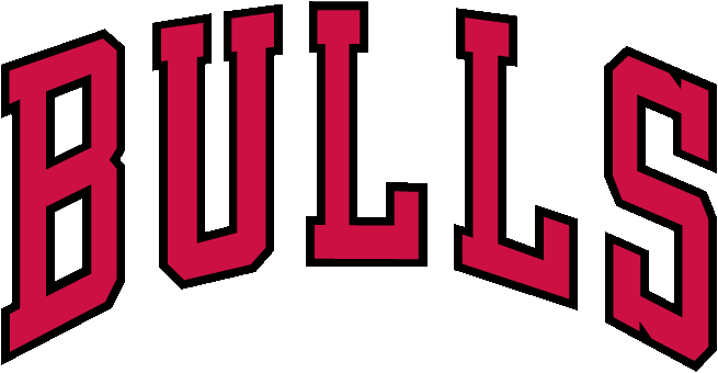 The wordmark logo for the Chicago Bulls National Basketball Association (NBA) team. First used beginning with the 1966–67 NBA season.